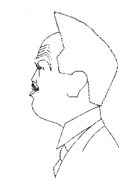 Louis de Broglie (1892-1987), Nobel Laureate in Physics (1929)Drawing by Gheorghe Manu (1903-1961), Romanian physicist